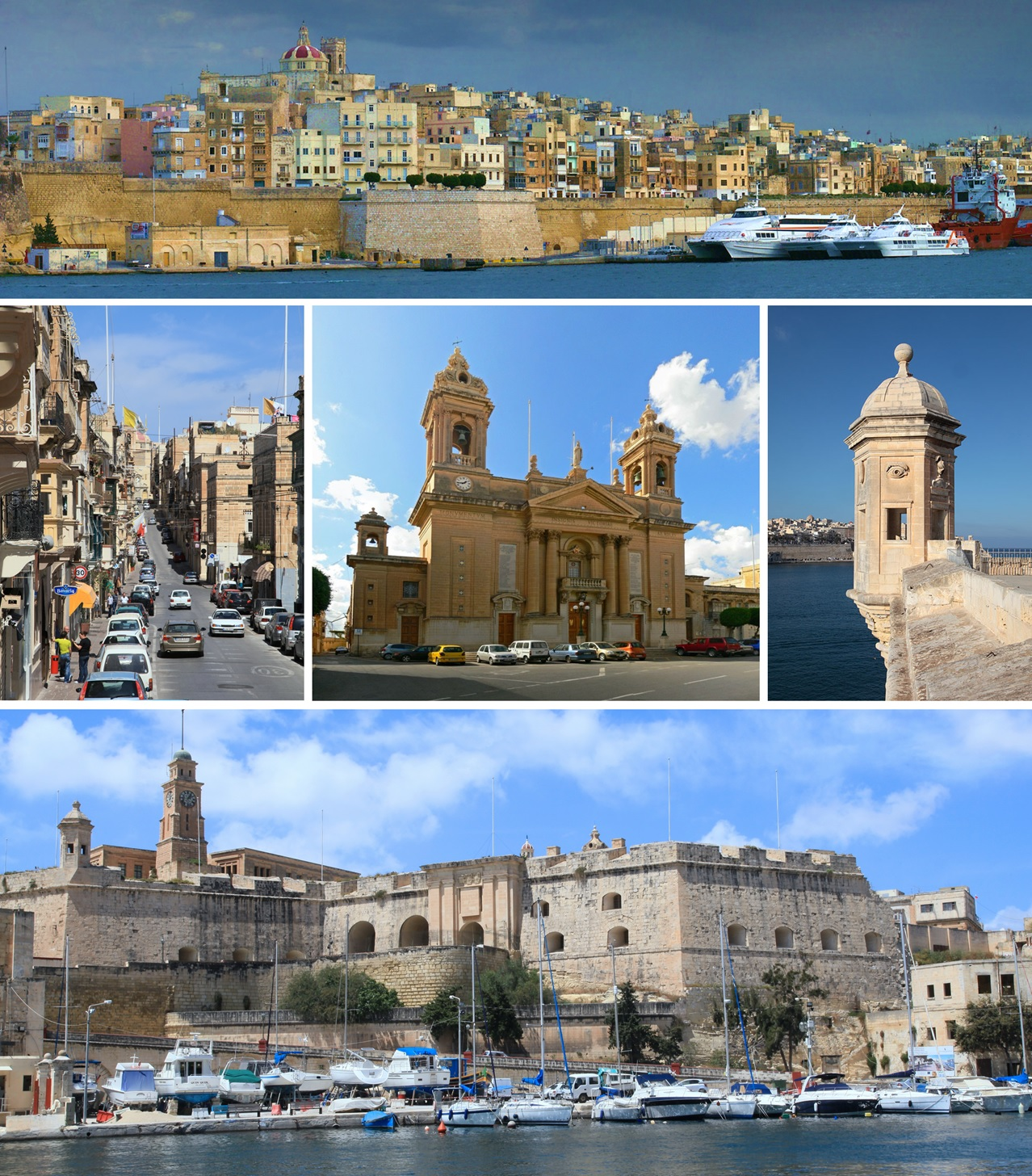 Montage of various landmarks in Senglea, Malta.